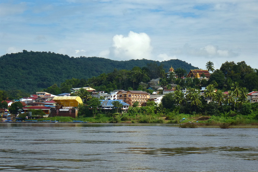 Huay Xai viewed from the Mekong River, Bokeo Province, Laos.